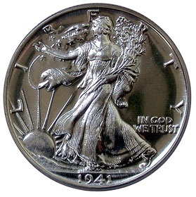 Obverse of a Walking Liberty Half dollar coin